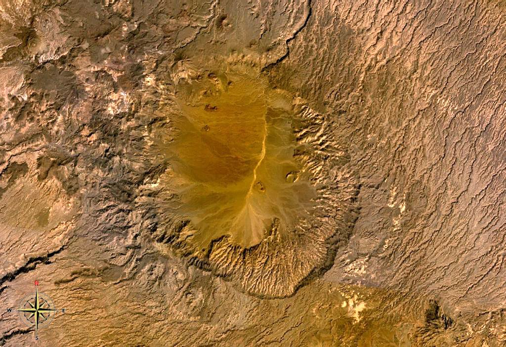 Tarso Voon volcano in Chad. Satellite view.